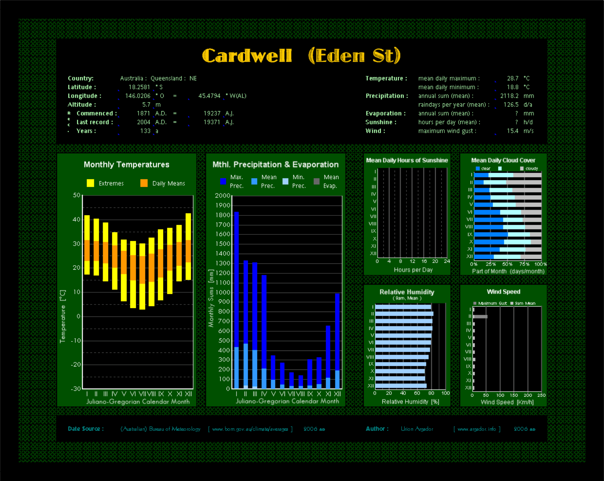 Climate diagram of the town of Cardwell on Rockingham Bay next to Hinchinbrook Island in the Wet Tropics of Queensland on the far north-eastern coast ofQueensland. --- { It should be noted that not all parameters have been measured during the whole record time span (see source data). }